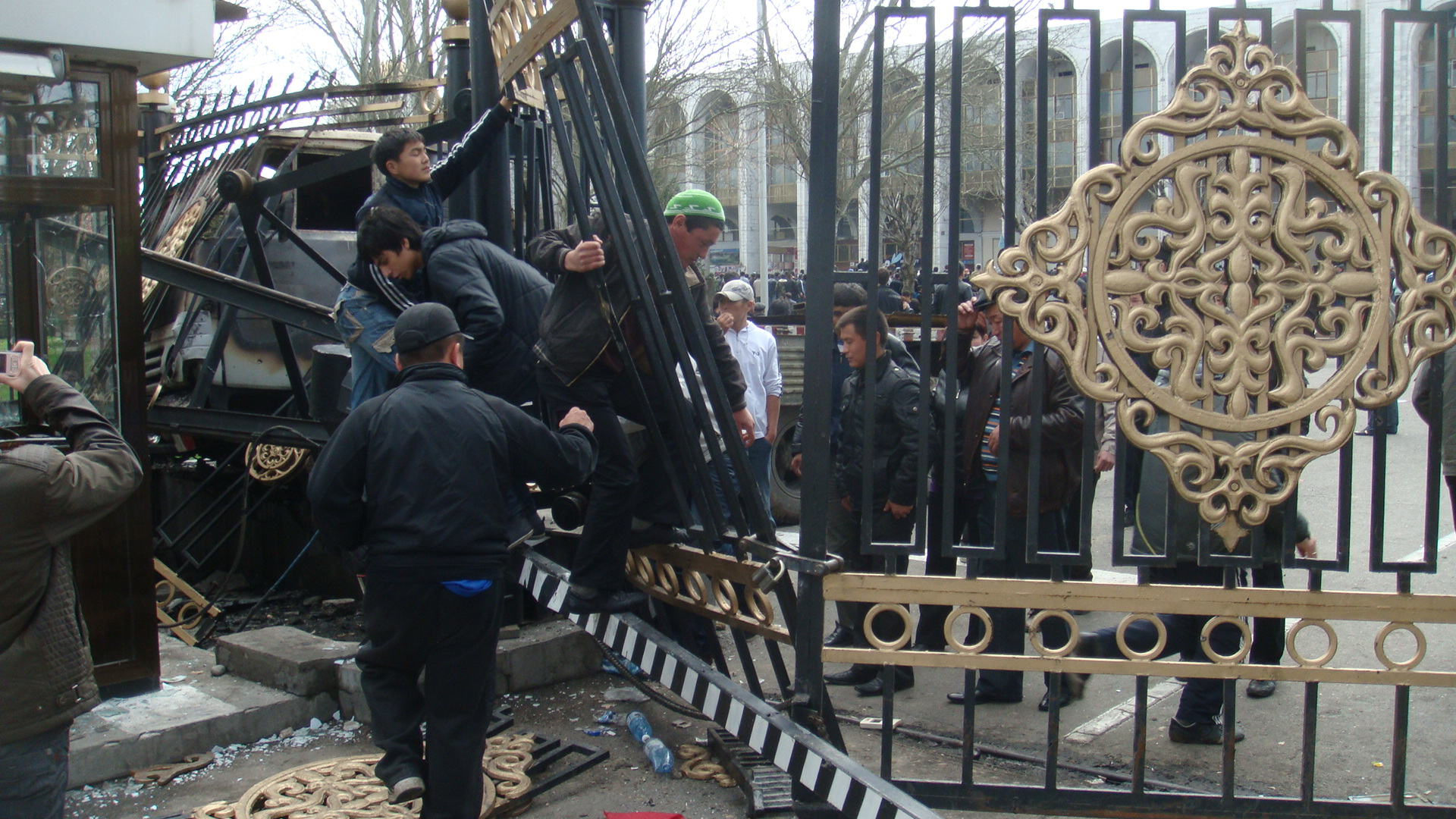 Kyrgyz entering the otherwise-closed capitol lawn following citywide protests in Bishkek, Kyrgyzstan on April 7th, 2010. The severely damaged capitol was left unguarded for several hours on the morning of April 8th.